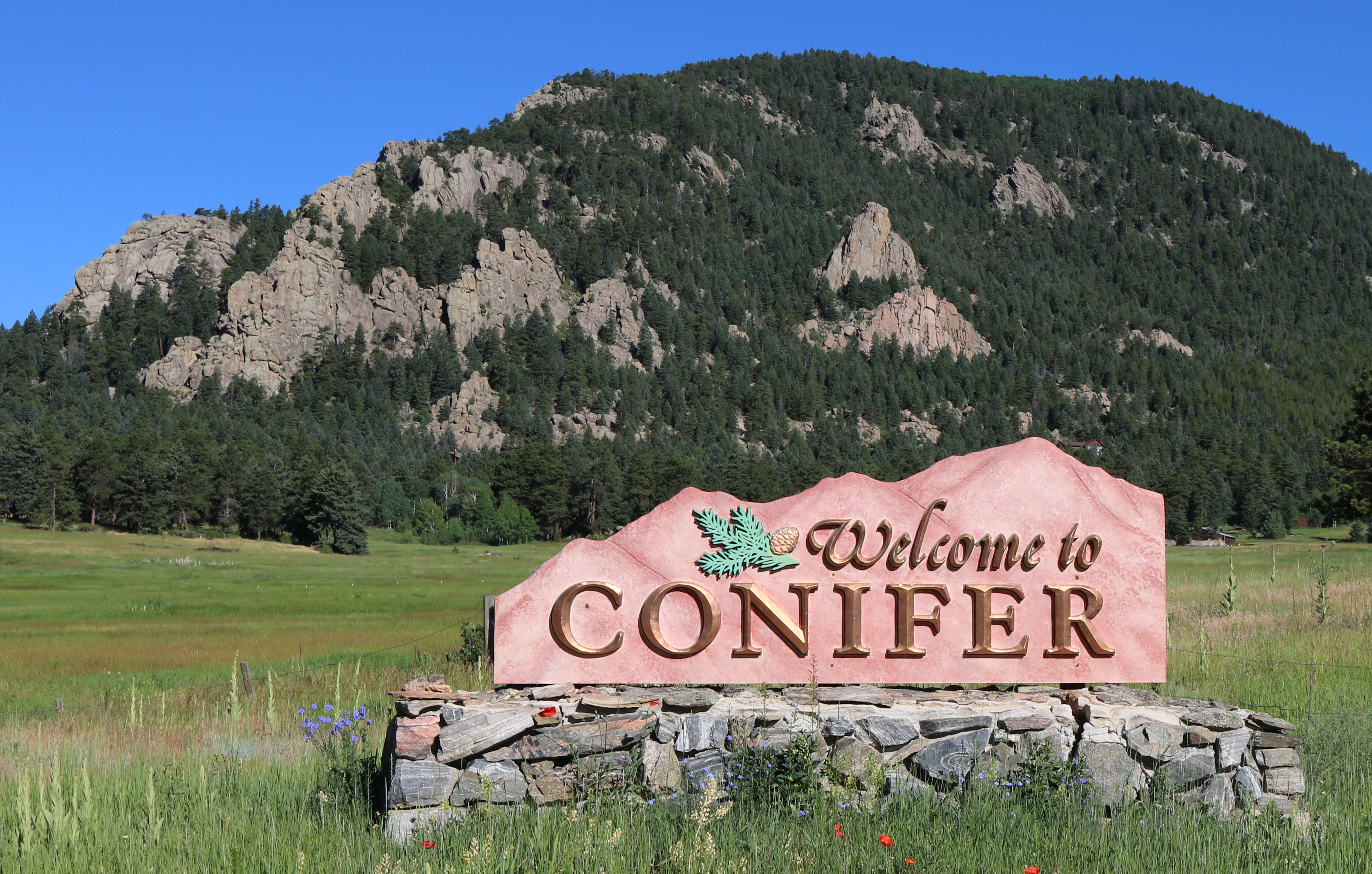 The "Welcome to Conifer" sign located on U.S. Route 285 in Jefferson County,, Colorado.